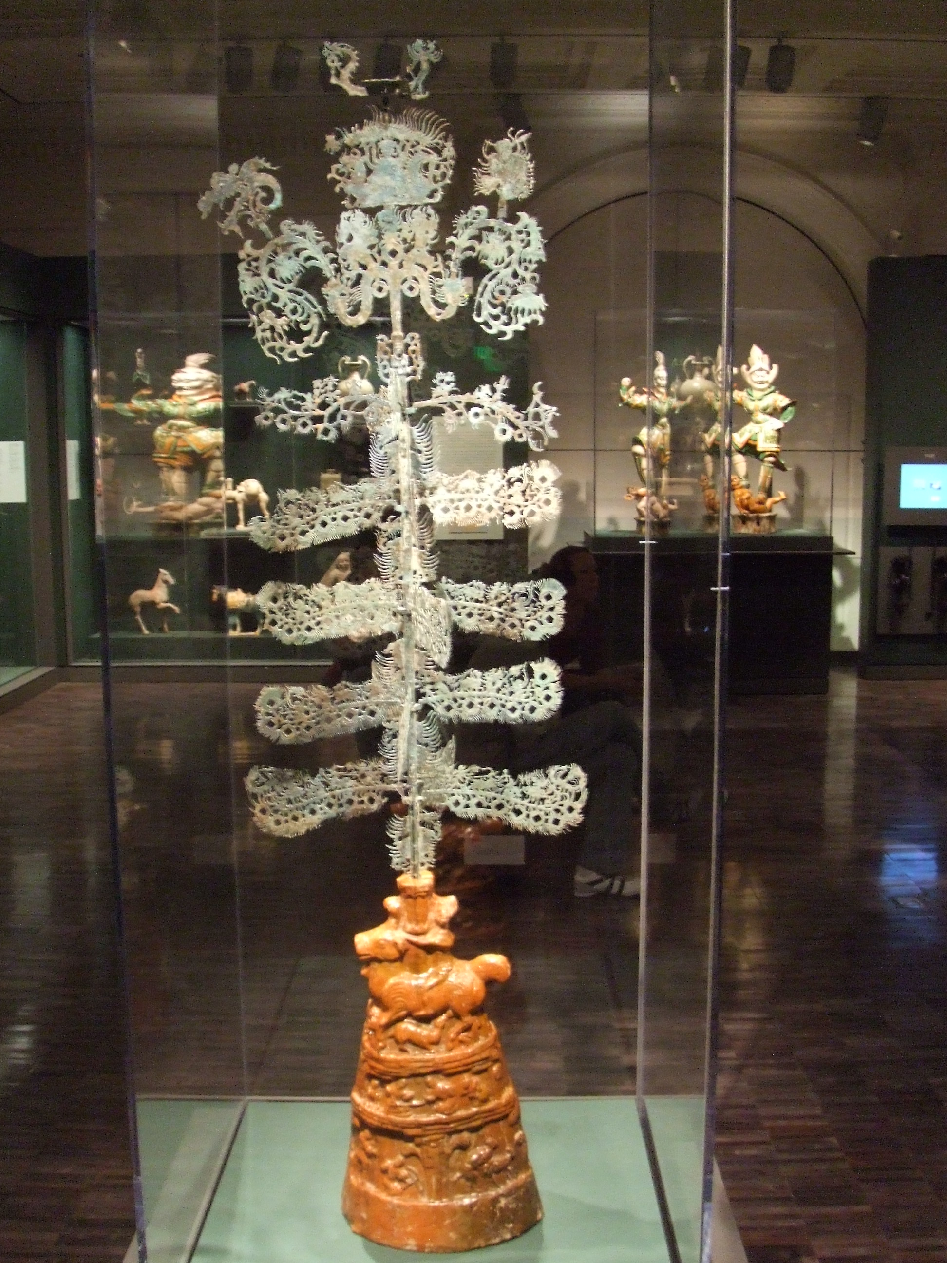 "Money Tree," an ancient Han Dynasty Chinese sculpture. Photographed by Conrad Shultz at the Asian Art Museum of San Francisco on 07 Oct 2007.